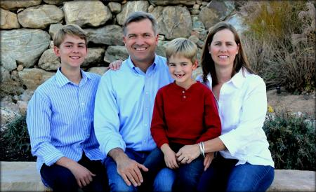 Congressman Matheson and family